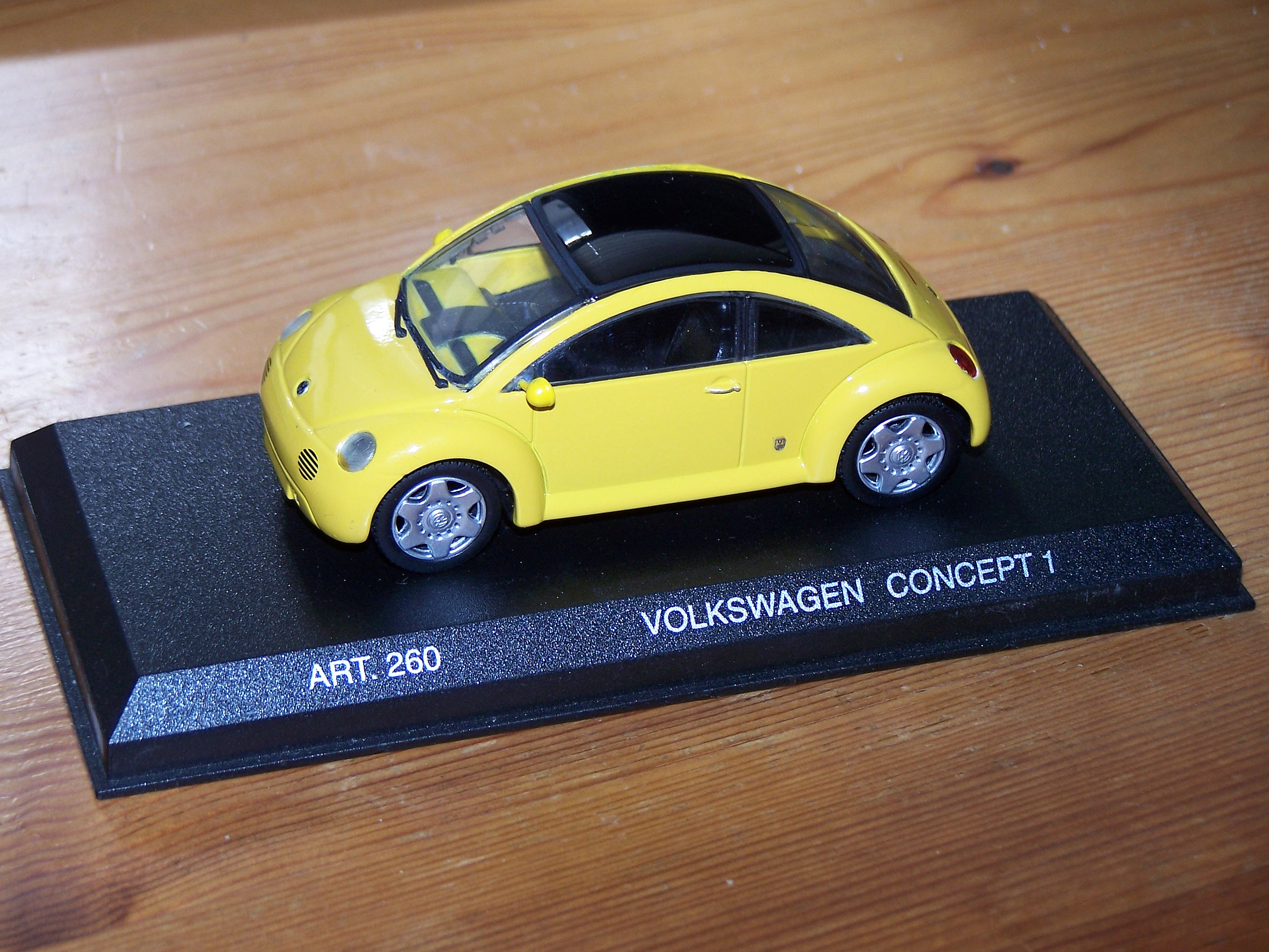 Volkswagen New Beetle prototype Concept 1 as a model car in scale 1:43